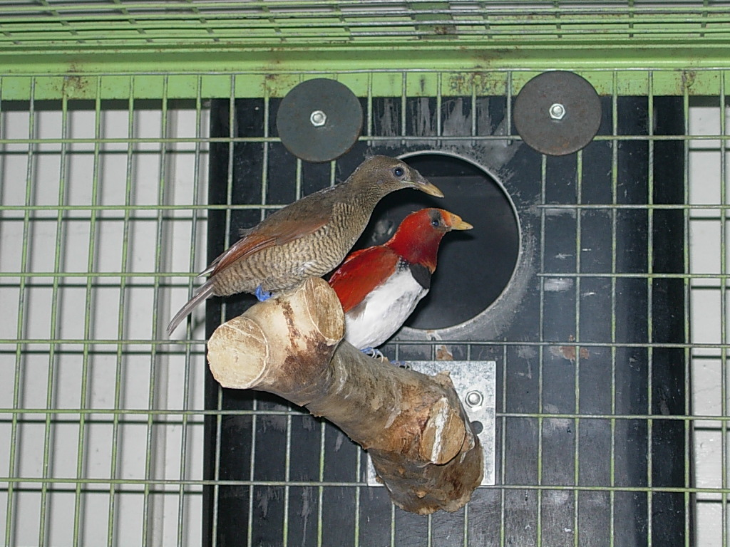 A pair of King Bird-of-Paradise in a cage with a nesting box.